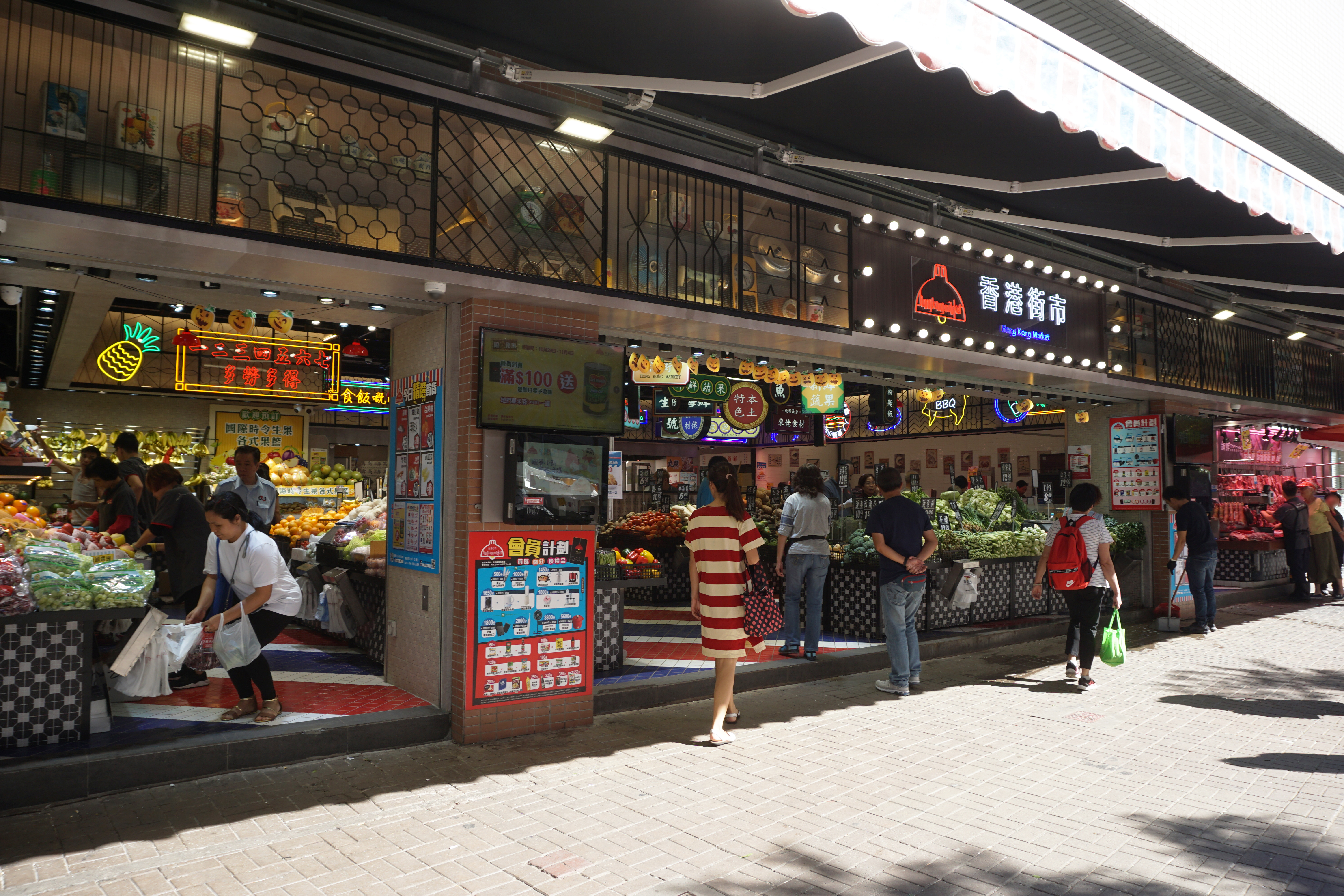 Bauhinia Garden in Tseung Kwan O, Hong Kong.